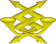 Signal troops branch insignia of Ukraine